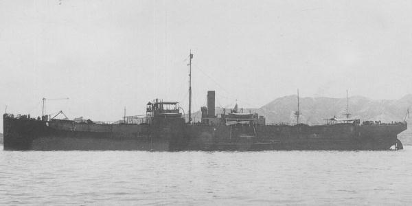 IJN oiler NOMA at Kure Naval Base.